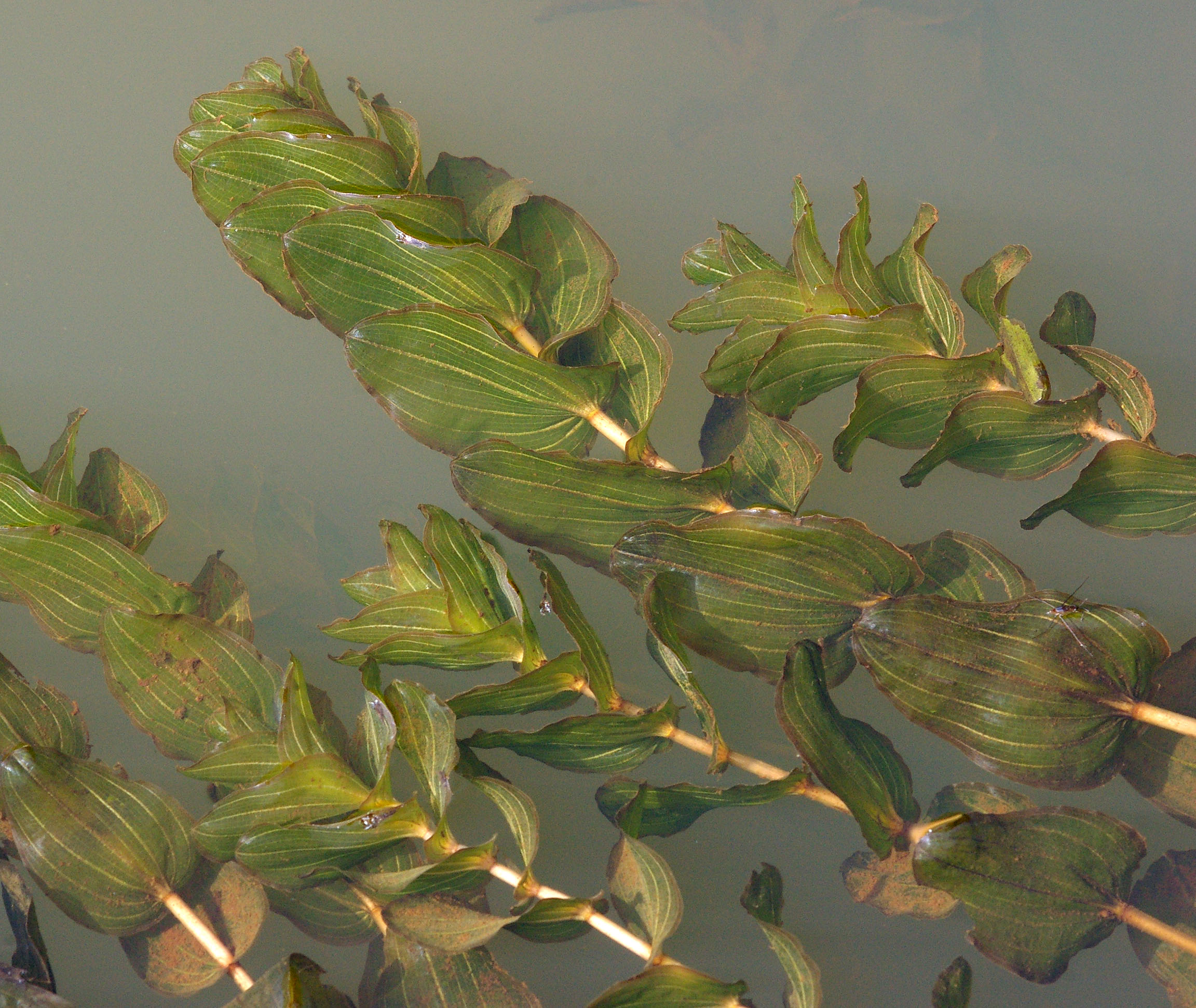 Submerged plants of Perfoliate Pondweed, Potamogeton perfoliatus, in a canal.